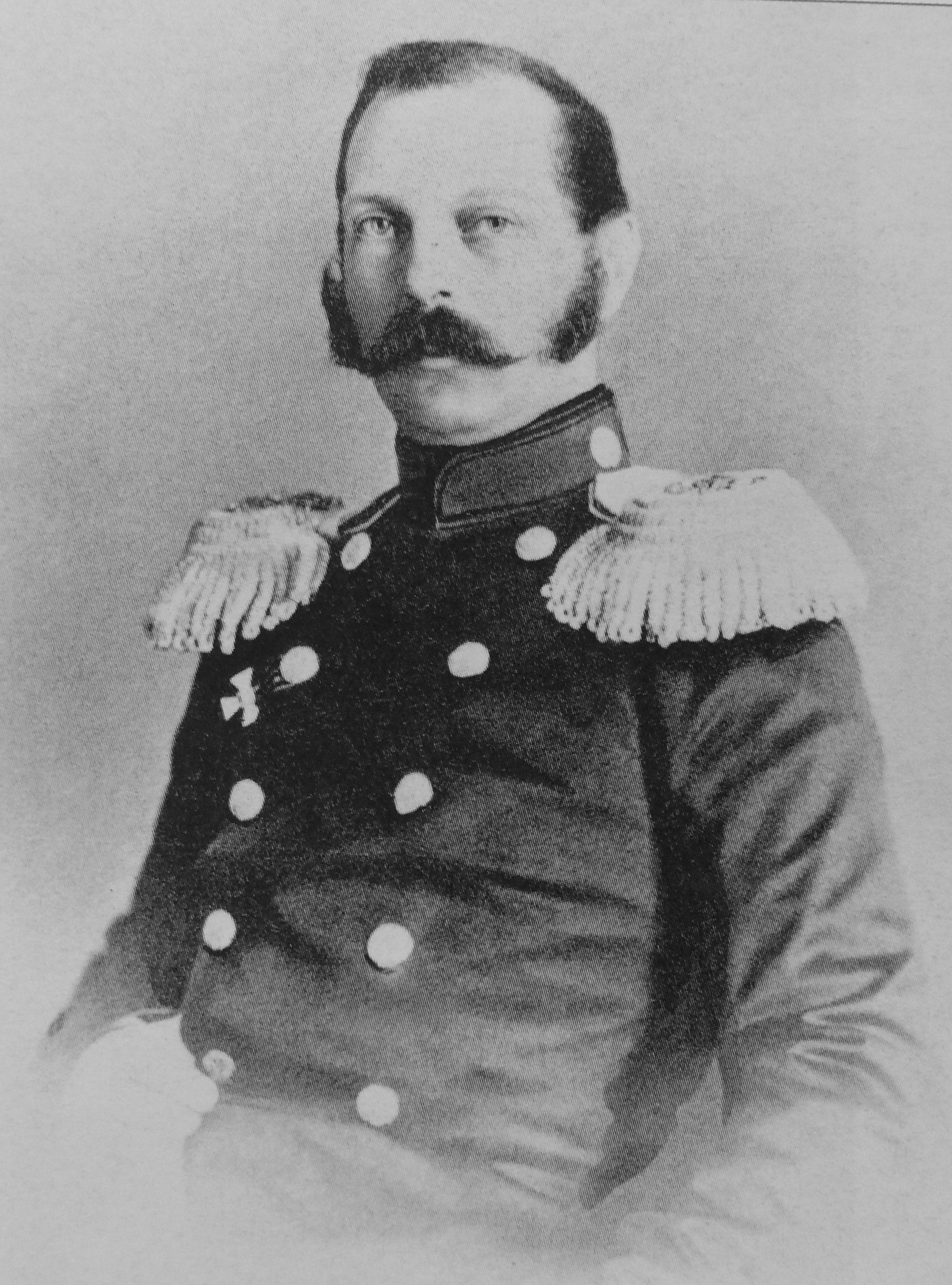 Emperor Alexander II of Russia